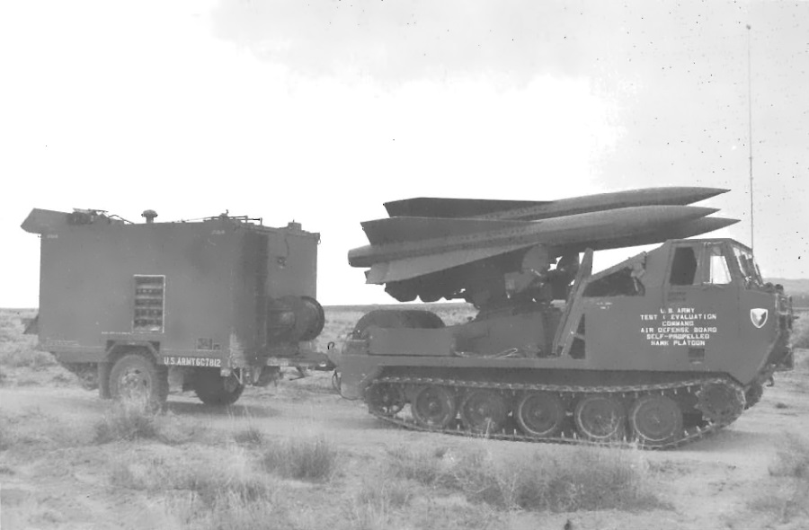 Self-propelled Hawk with towed antenna array